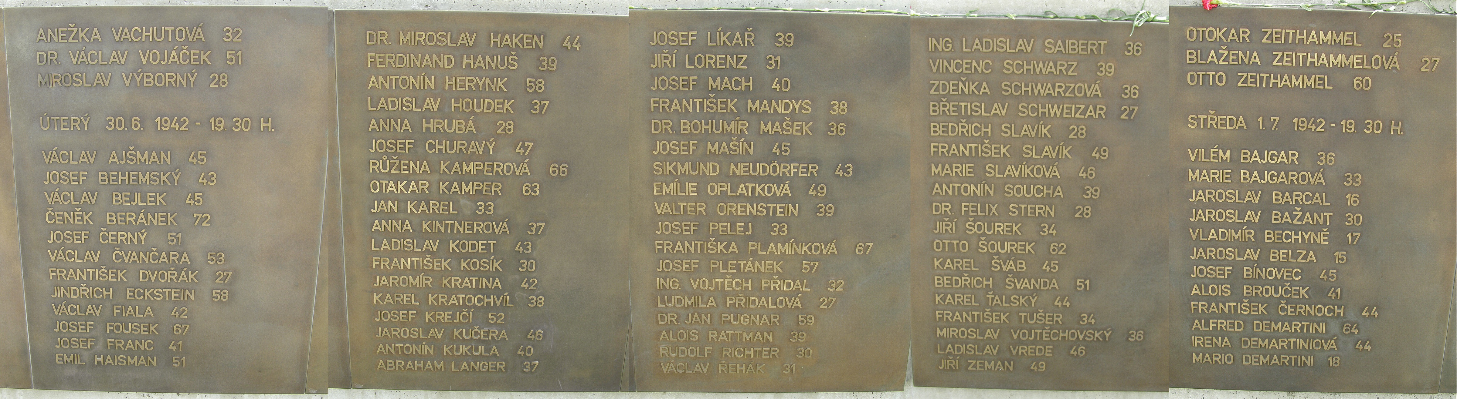 Kobylisy shooting range, Prague, Czech republic - Five (out of 36) brass plaques with names (on this place murdered) persons on 30 June 1942. The shooting range is after general reconstruction, at the end of April 2016.